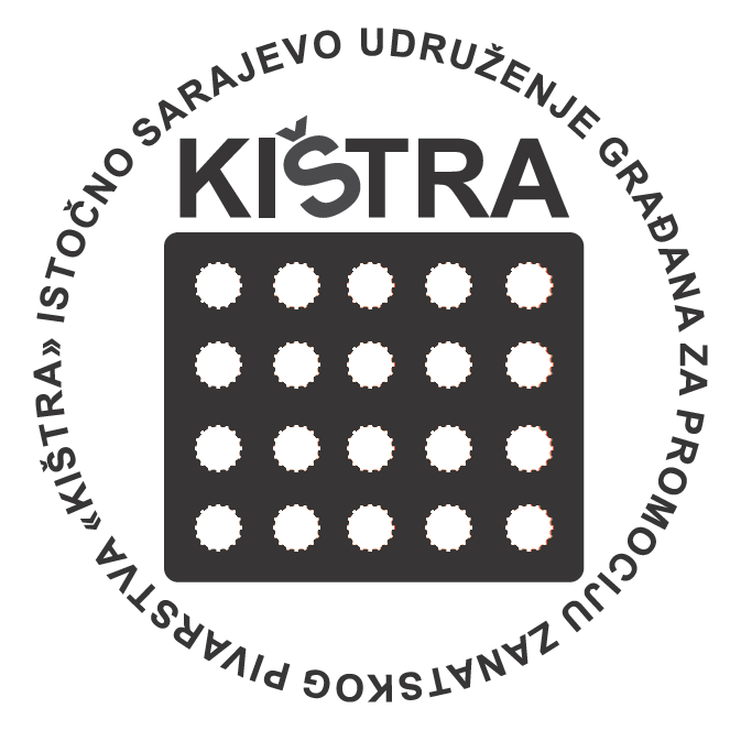 UG Kistra Logo